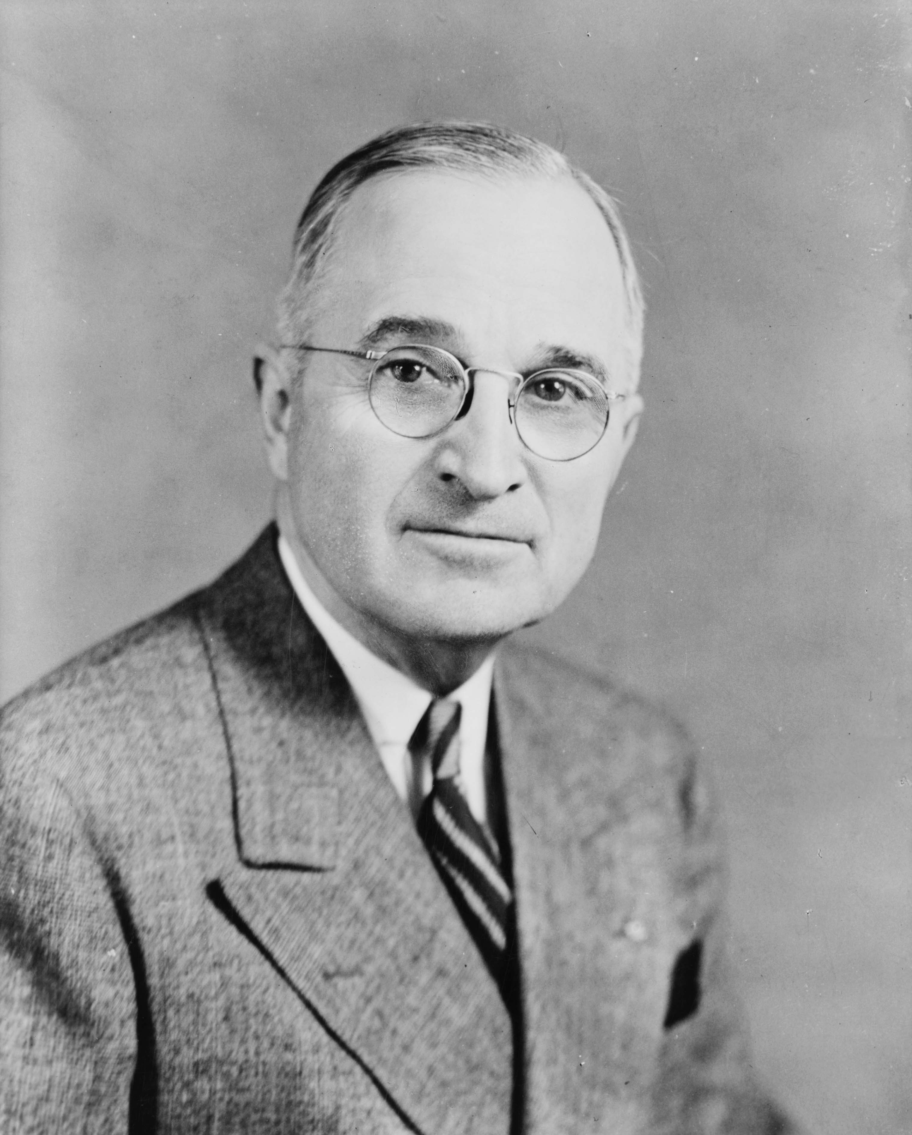 Harry S. Truman, President of the USA in 1945.